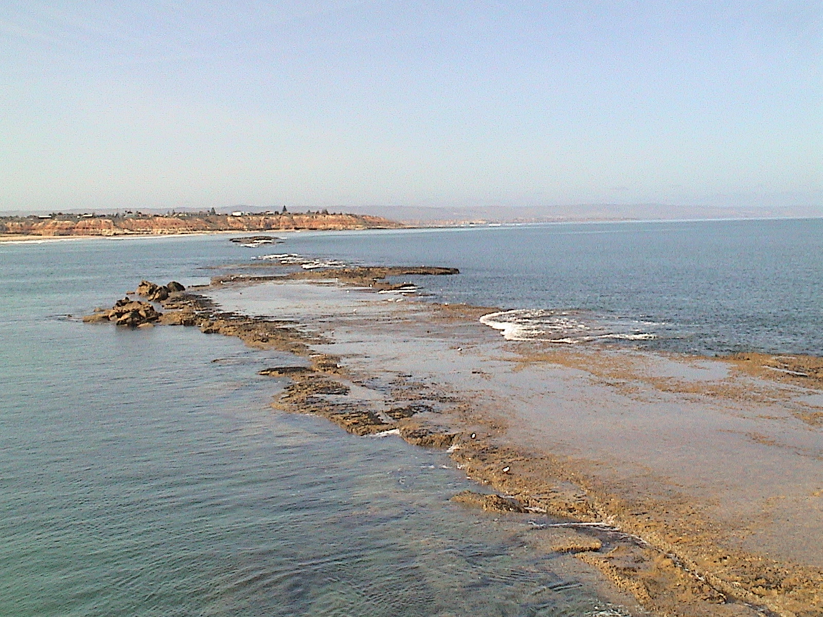 Port Noarlunga reef exposed at low tide, view south towards the Onkaparinga River Estuary and the cliffs at Port Noarlunga South Original filename = DSC14110.jpg